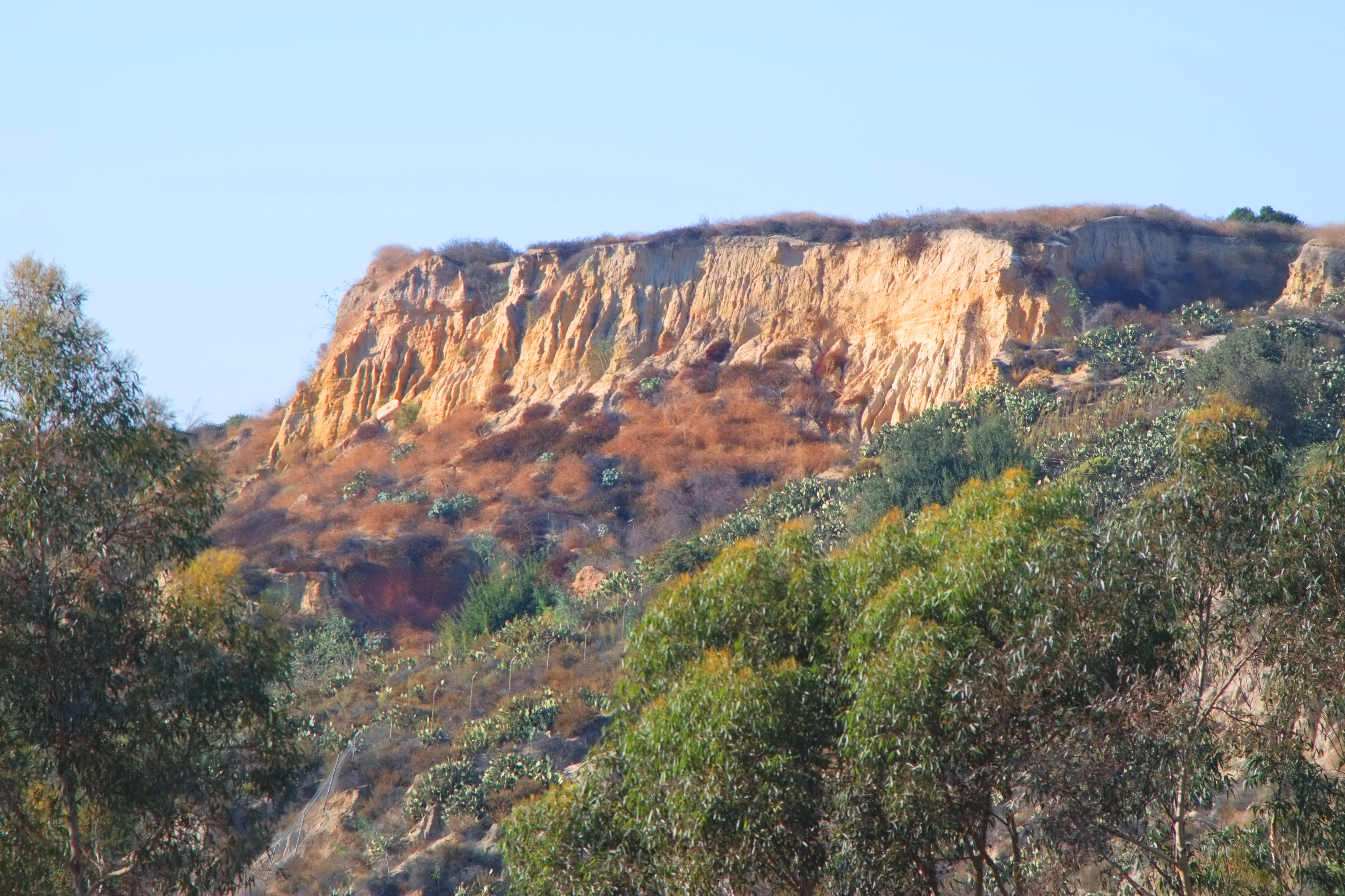 cliffs in Coyote Hills, Fullerton, CA, seen from Ralph B. Clark Park